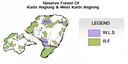 Map representing forest of Karbi Anglong district.